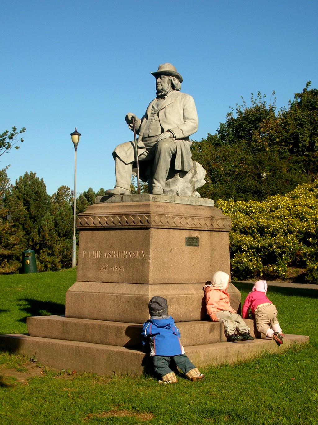 Peter Christen Asbjørnsen monument in St. Hanshaugen park in Oslo (Norway)